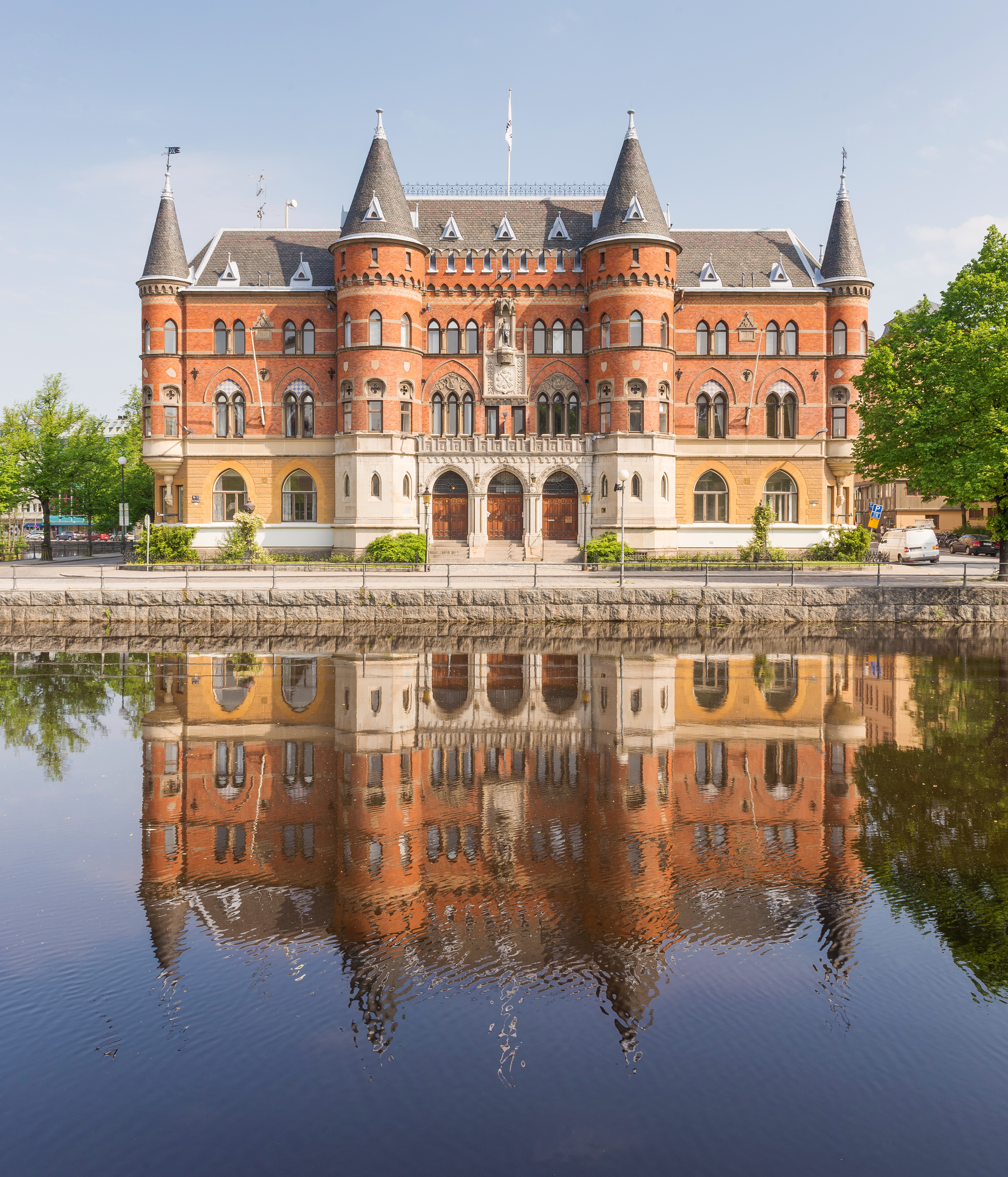 Allehandaborgen is a historic office building in Örebro, Sweden. Built 1891.